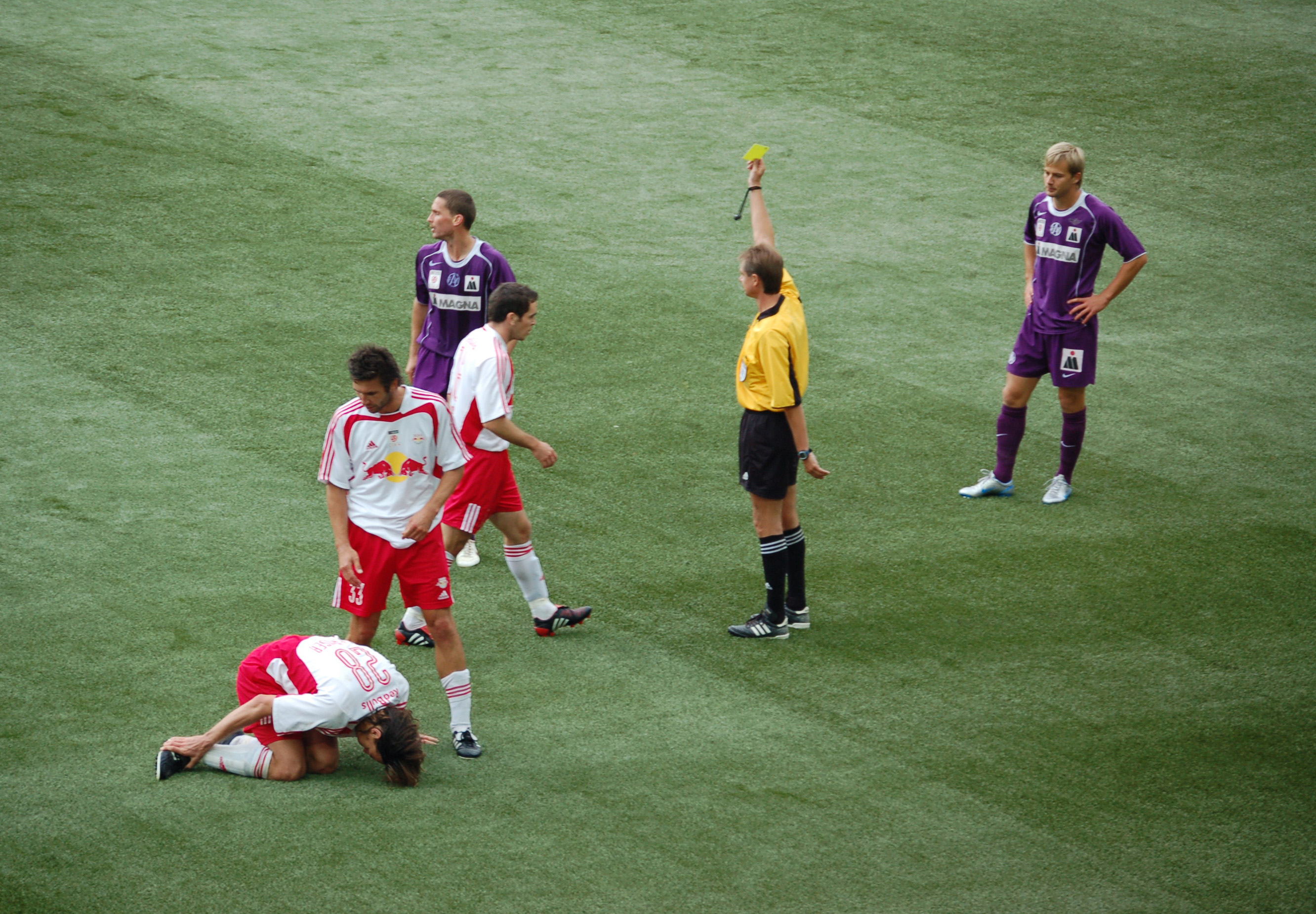 Referee Gerald Lehner shows Arek Radomski (FK Austria Wien) the Yellow Card (from FC Red Bull Salzburg vs. FK Austria Wien in the stadium Wals-Siezenheim).